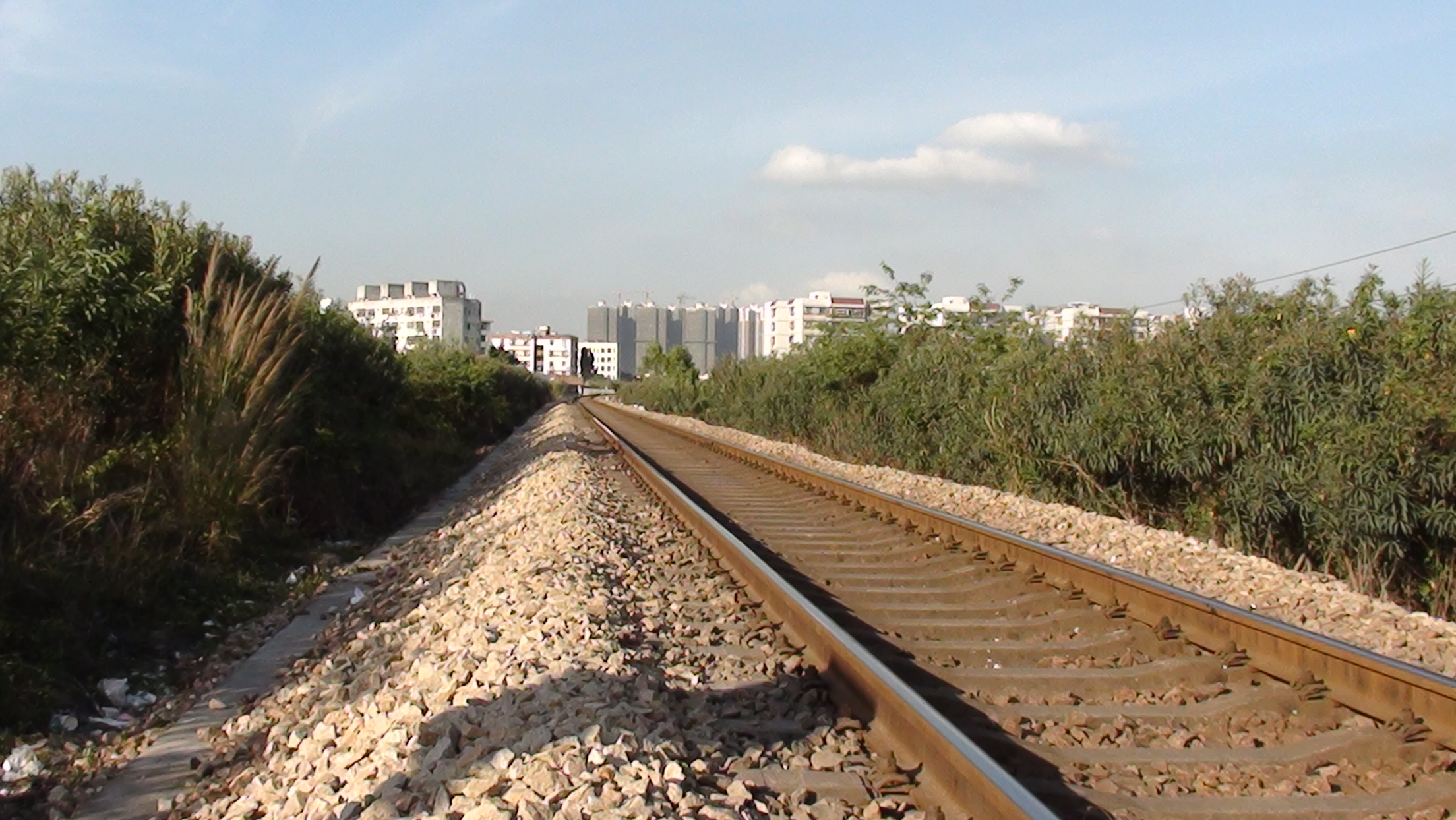 Pingnan Railway in Nanshan,Shenzhen